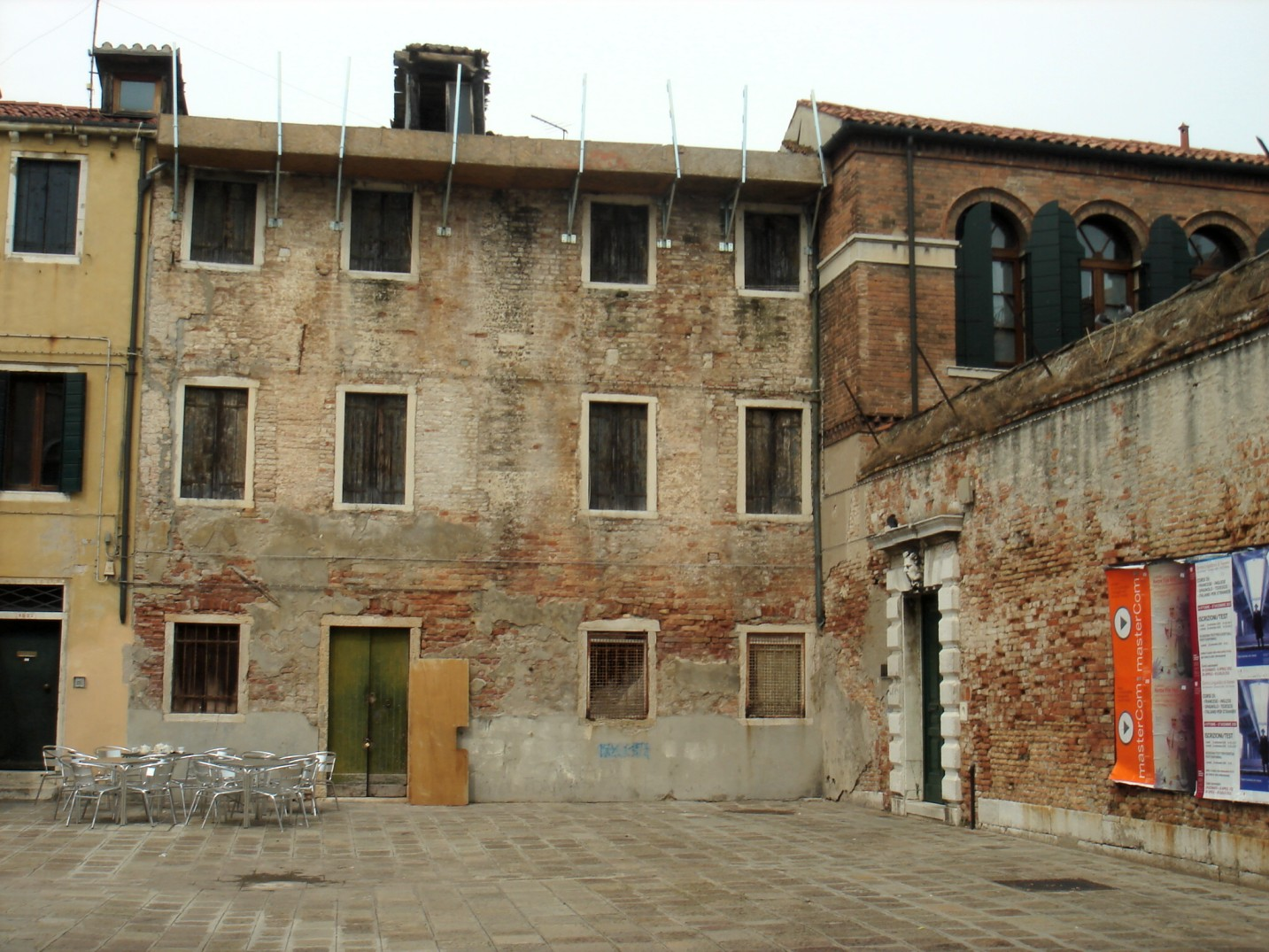 San Basegio